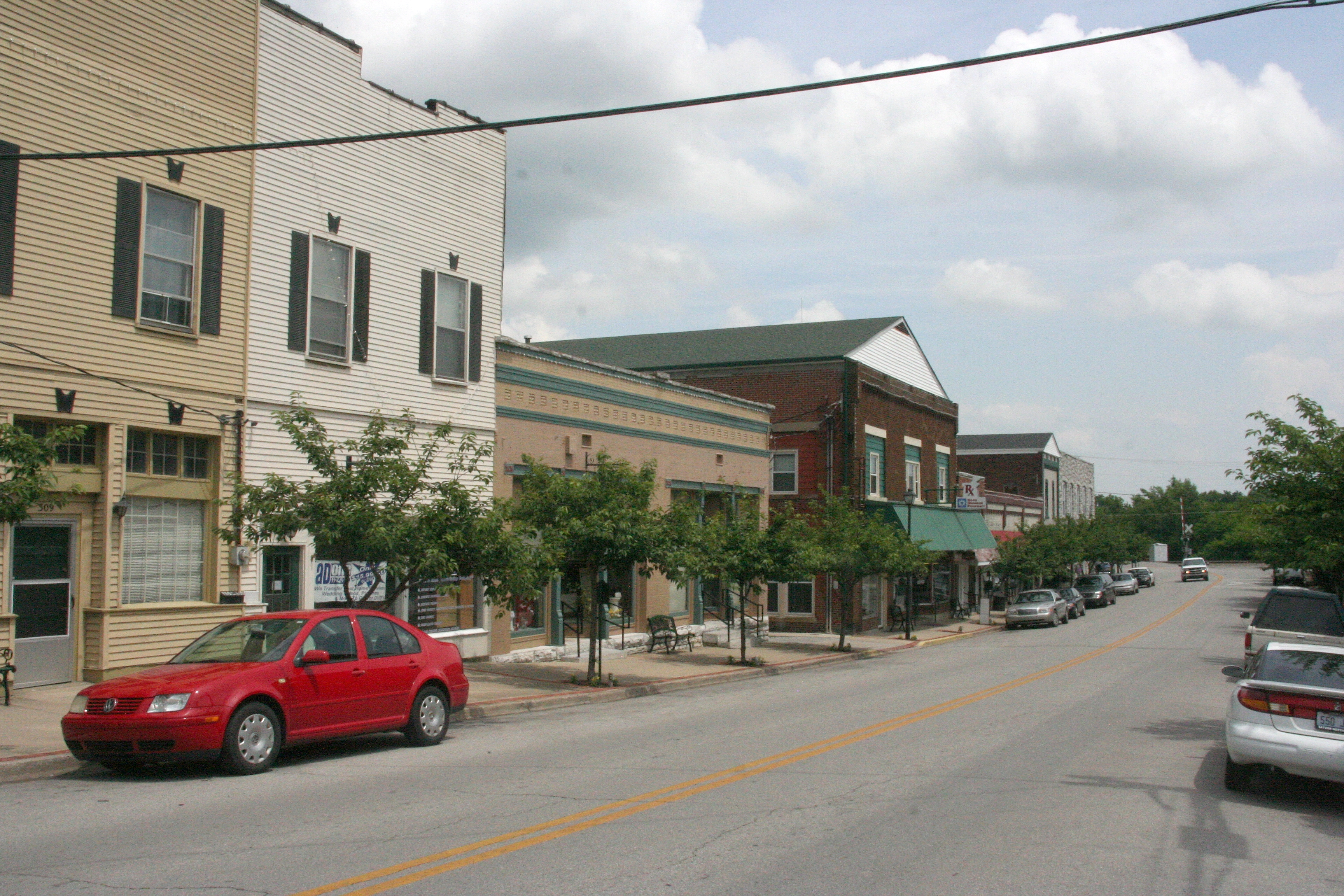 Buildings in the 300 block of E. Main Street (KY 1268) in downtown Wilmore, Kentucky, United States. This block is part of the East Main Street Historic District, a historic district that is listed on the National Register of Historic Places.